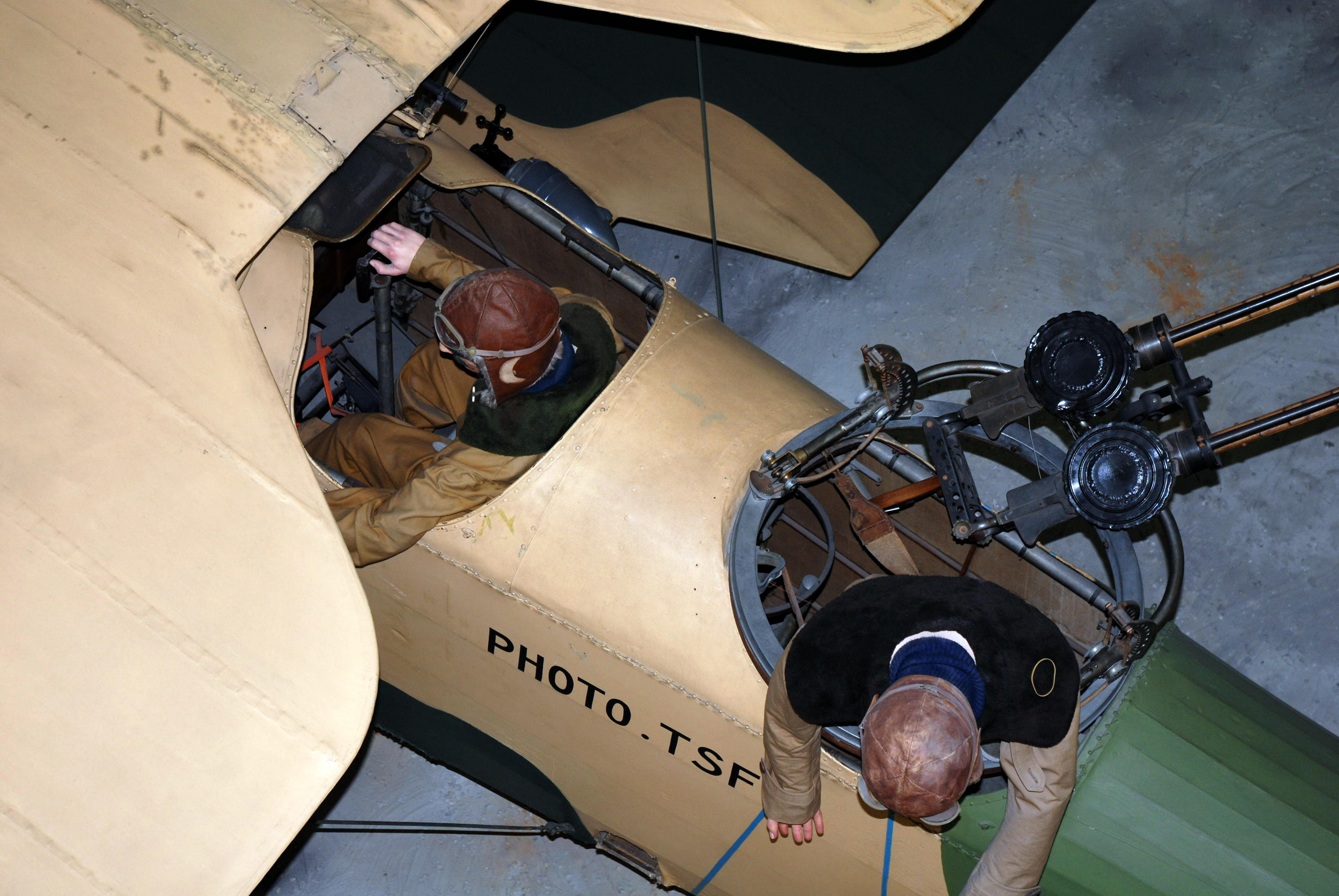 Photo ref; Nikon-D80-2013-DSC_1065 (Edited)